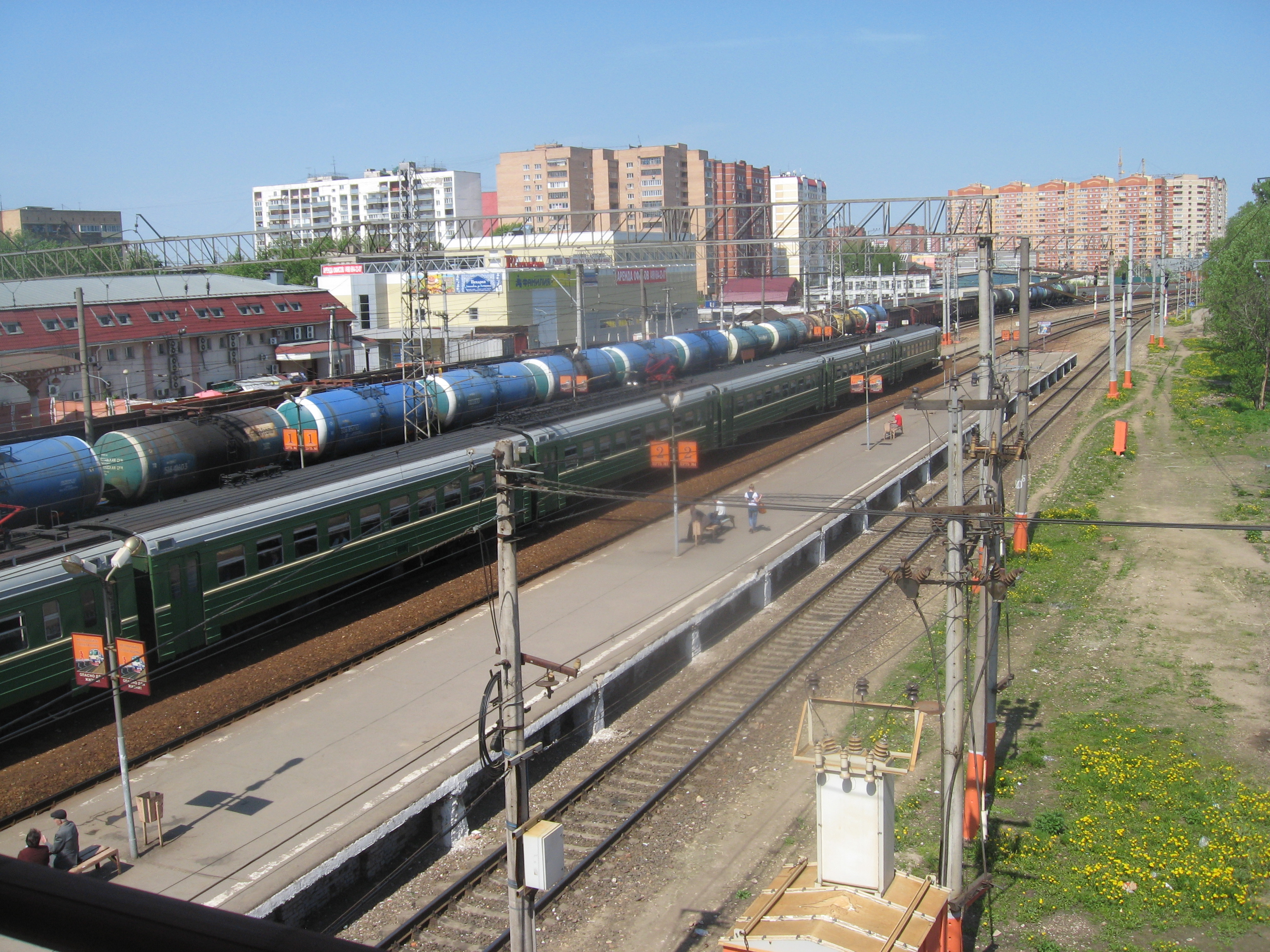 Lobnya railway station of Savyolovskoye direction of Moscow Railway, in the town of Lobnya